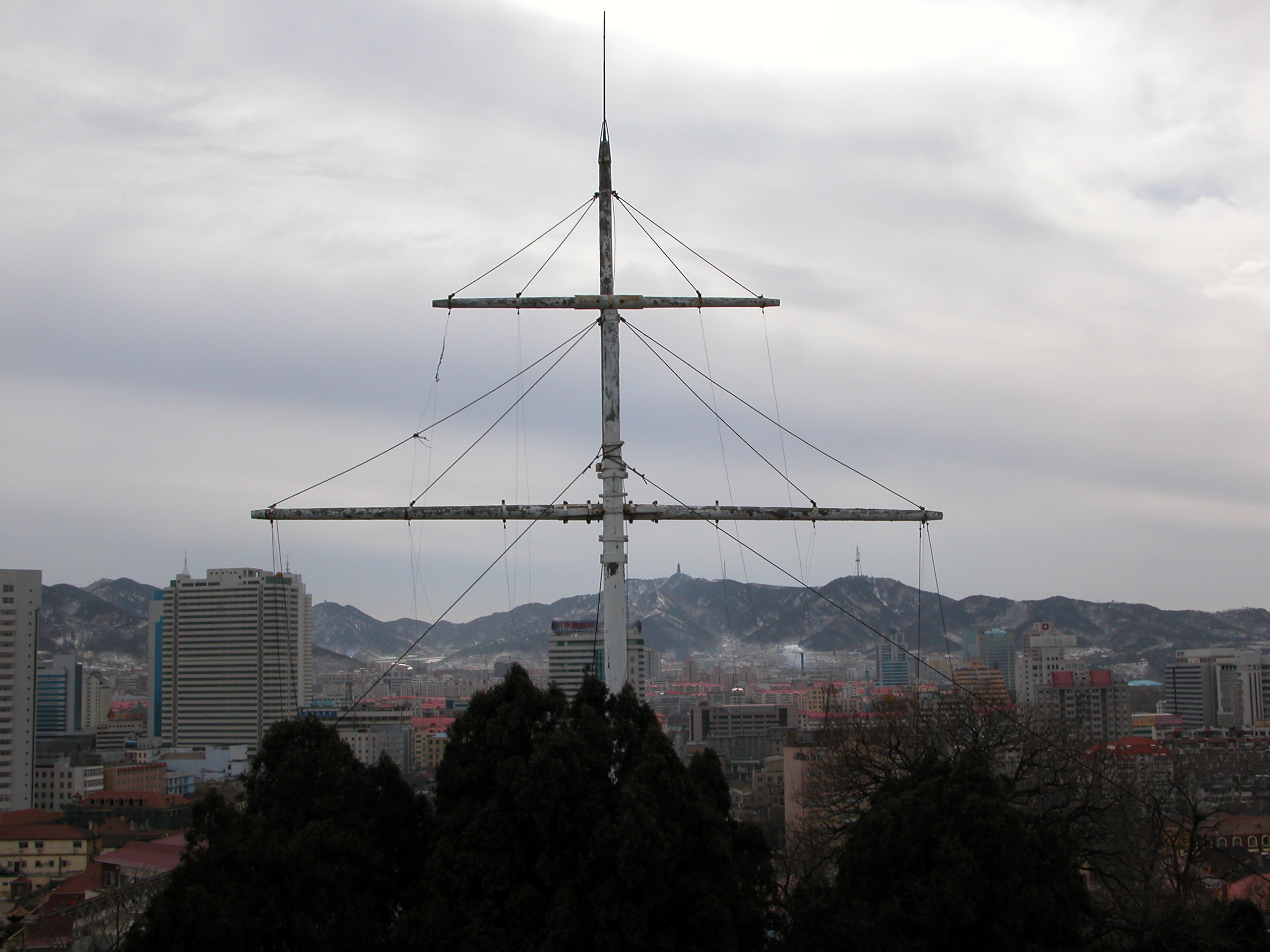 View of Ship mast from top of hill in foreign concession, Author: S.T. Fullerton